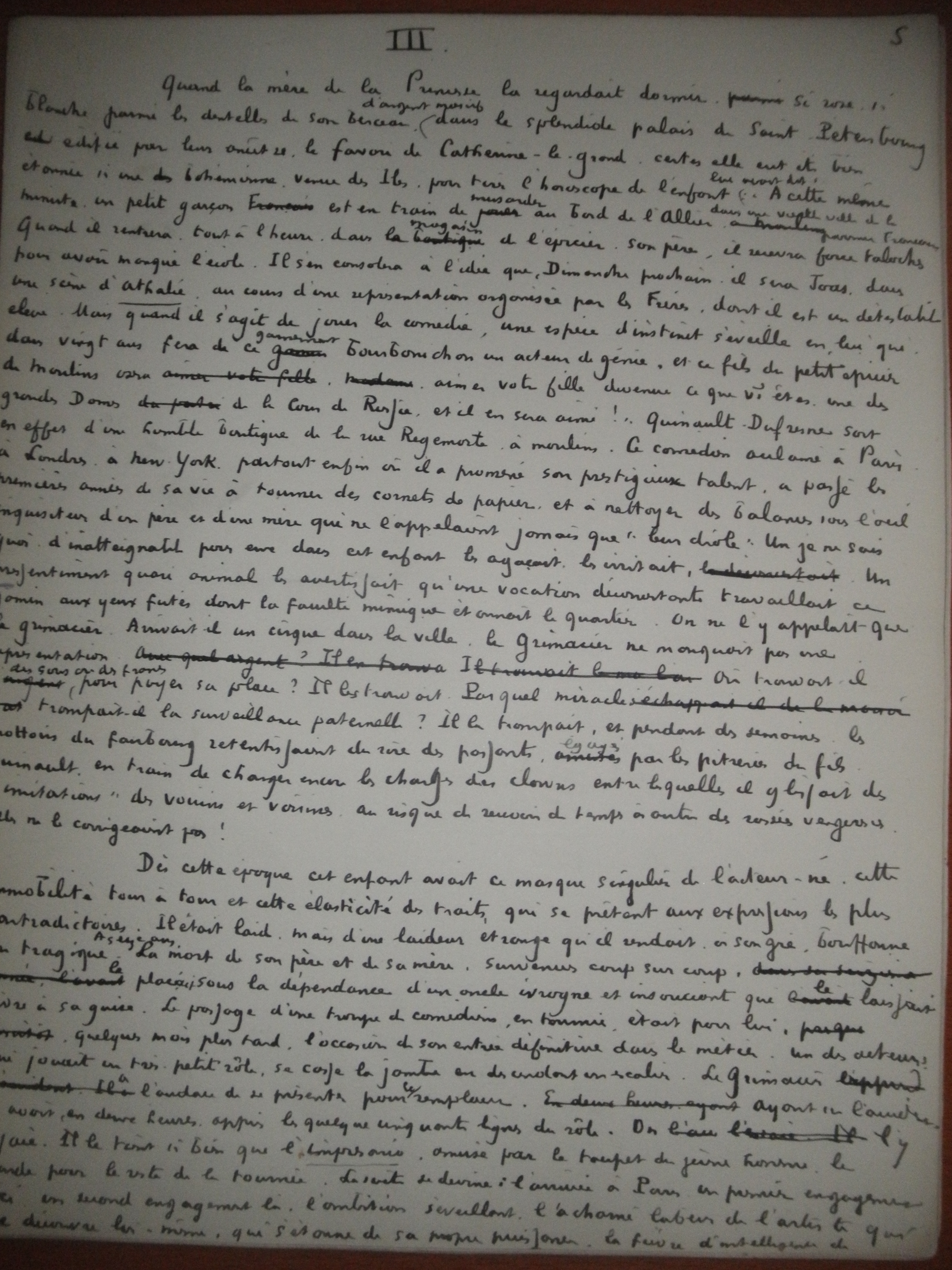 beau rôle 5